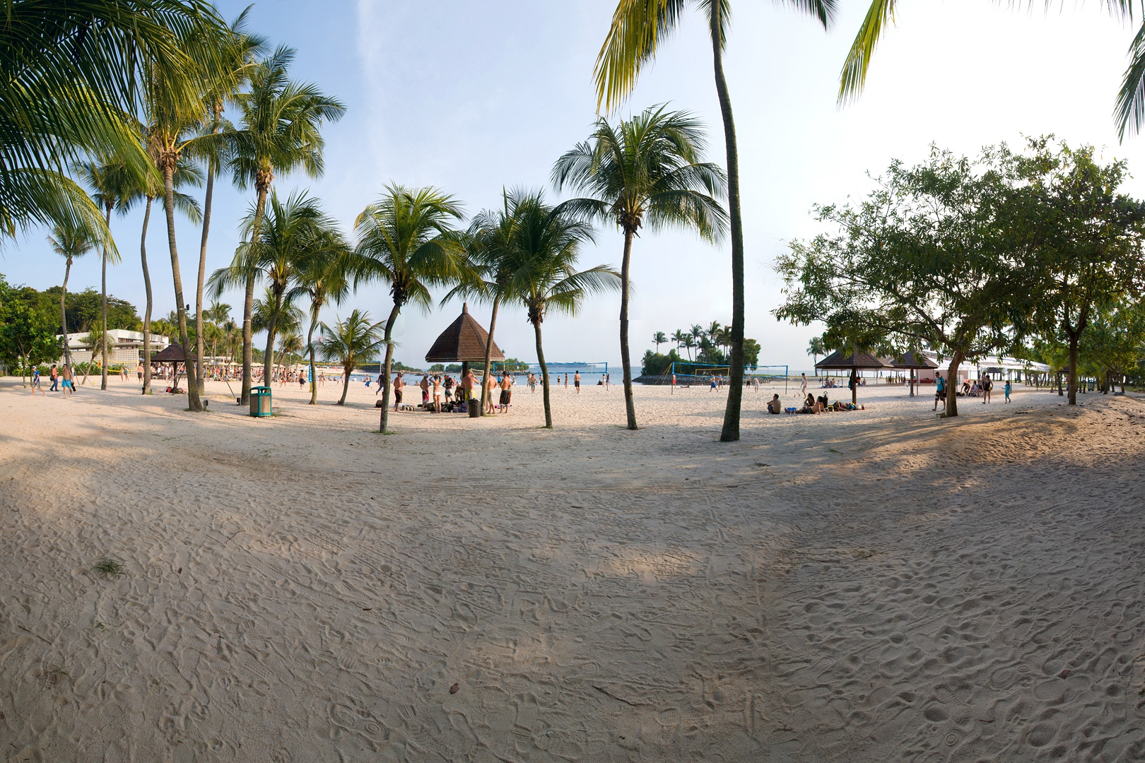 A stitched panorama of Tanjong Beach on Sentosa island, Singapore.